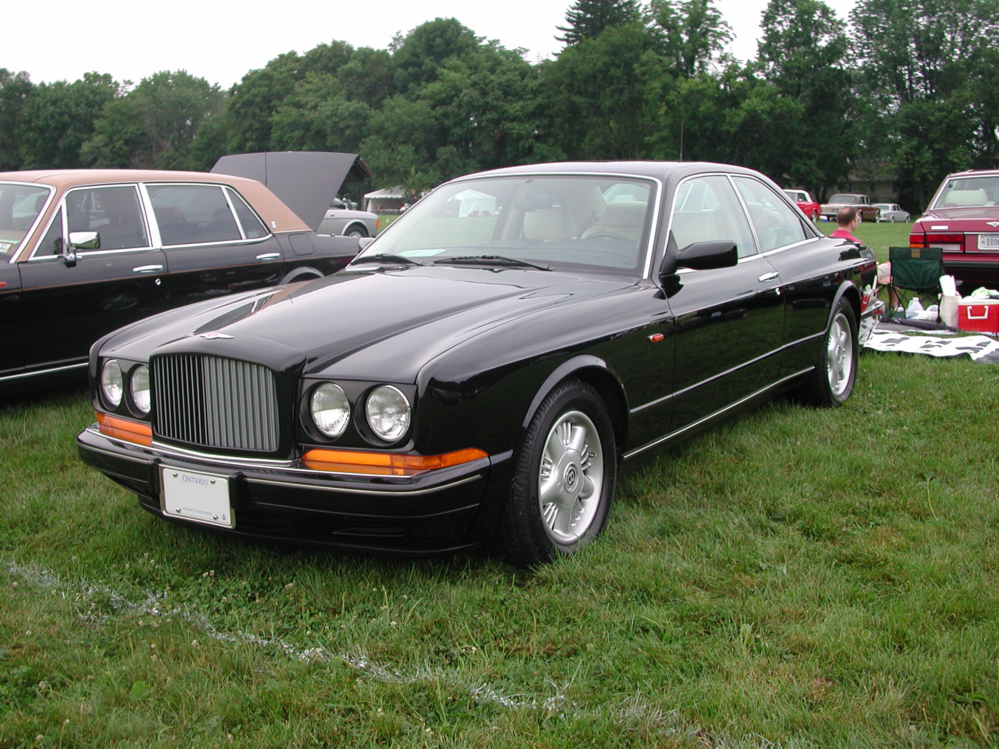 1998 Bentley Continental R Photographed by Jagvar at the Rolls-Royce Owners' Club's national meet in Darien, Connecticut on July 30, 2005.